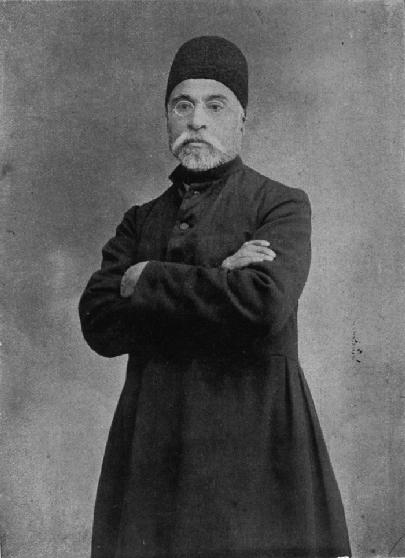 Forṣat-od-Dowleh Shirazi. After the frontispiece to his Dīvān.